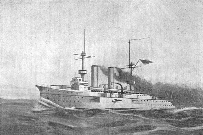 Illustration of the German armored cruiser SMS Prinz Heinrich